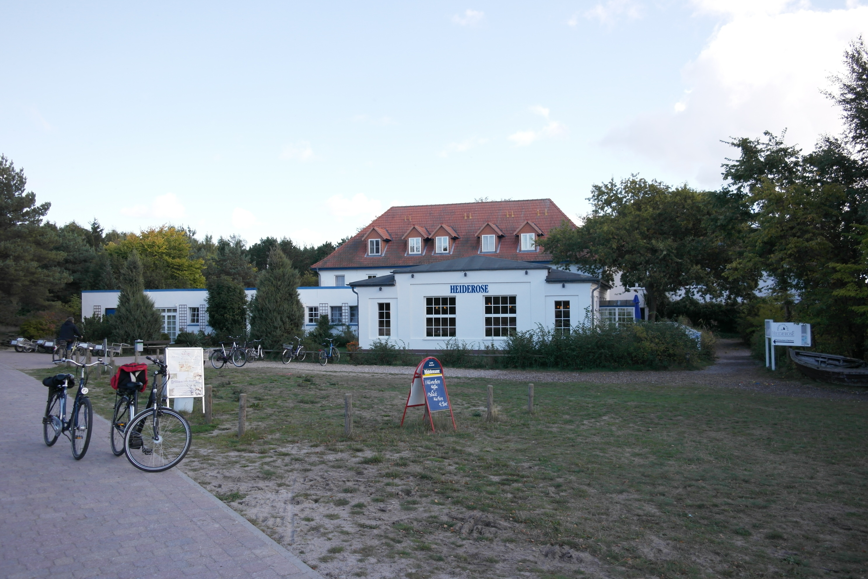 Island Hiddensee, hotel Heiderose, between Vitte and Neuendorf, cultural heritage